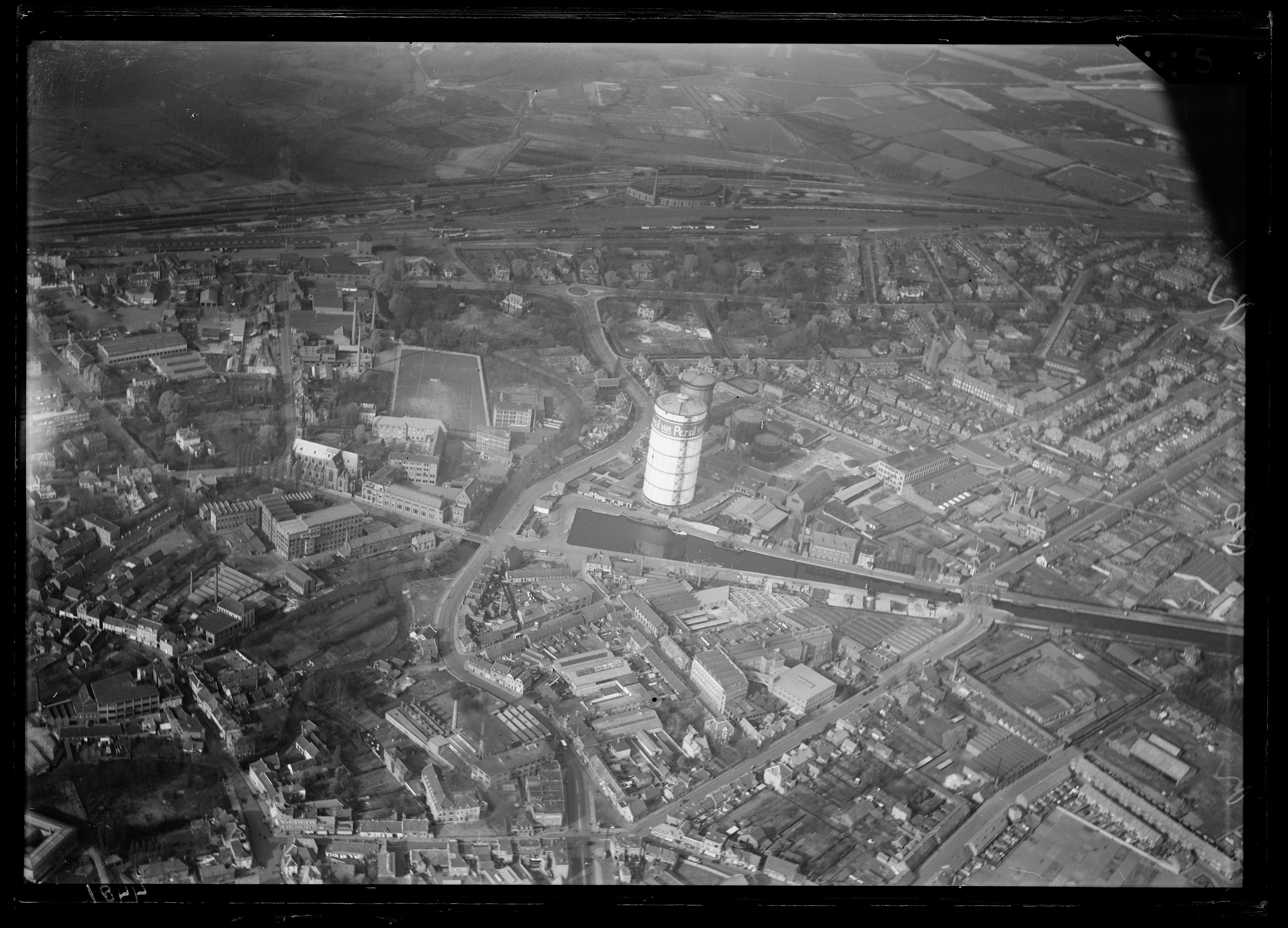 Aerial photograph of Eindhoven, The Netherlands